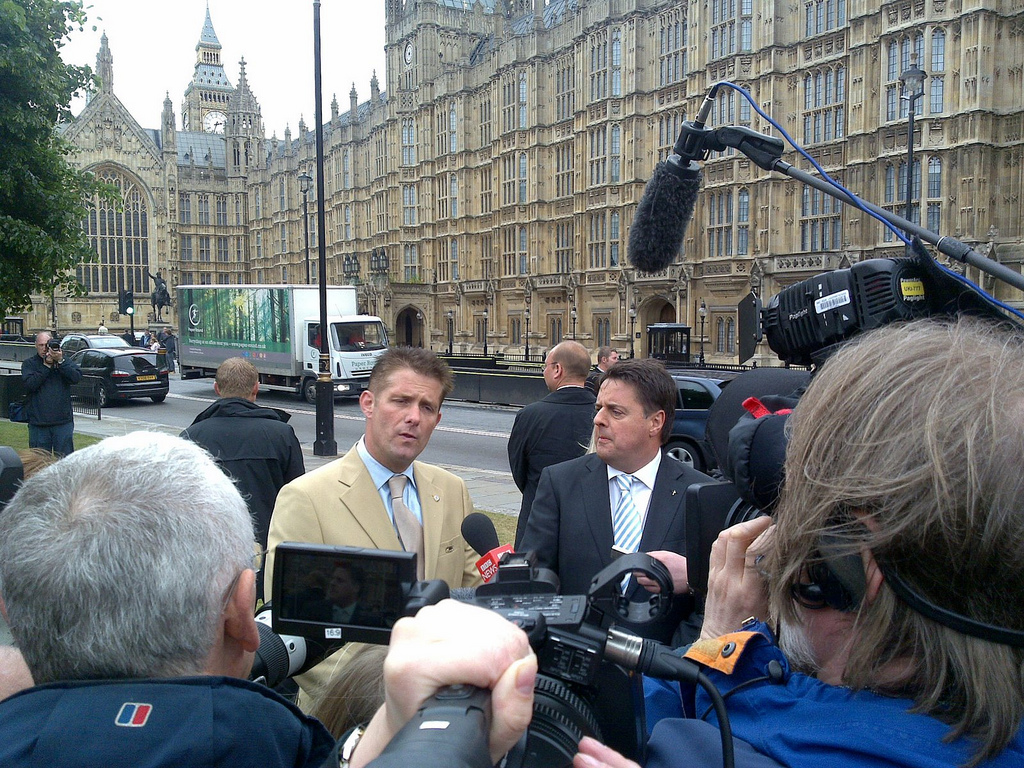 The British National Party's Nick Griffin and Cllr Richard Barnbrook hold a press conference outside the Houses of Parliament.